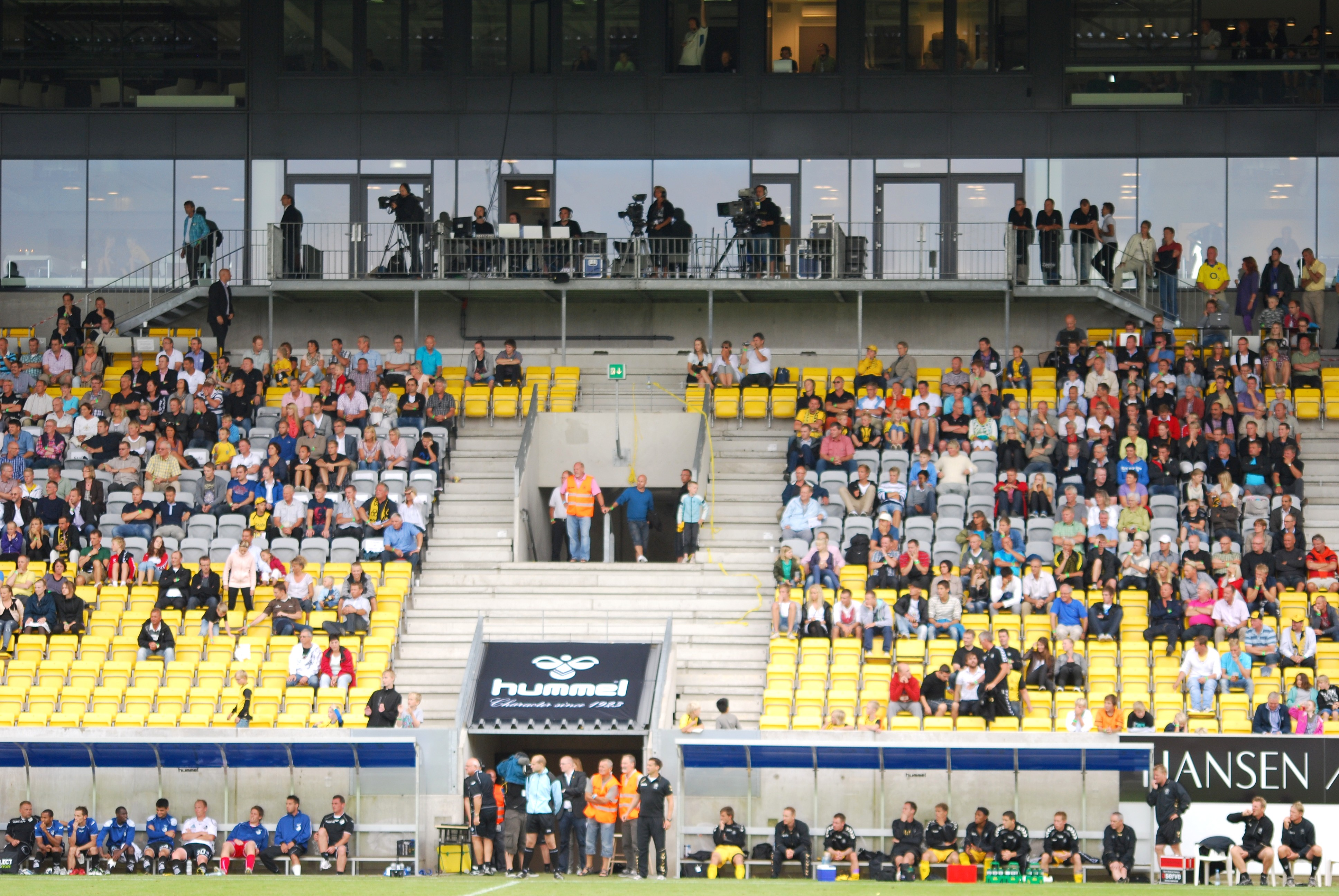 Casa Arena Horsens, Denmark